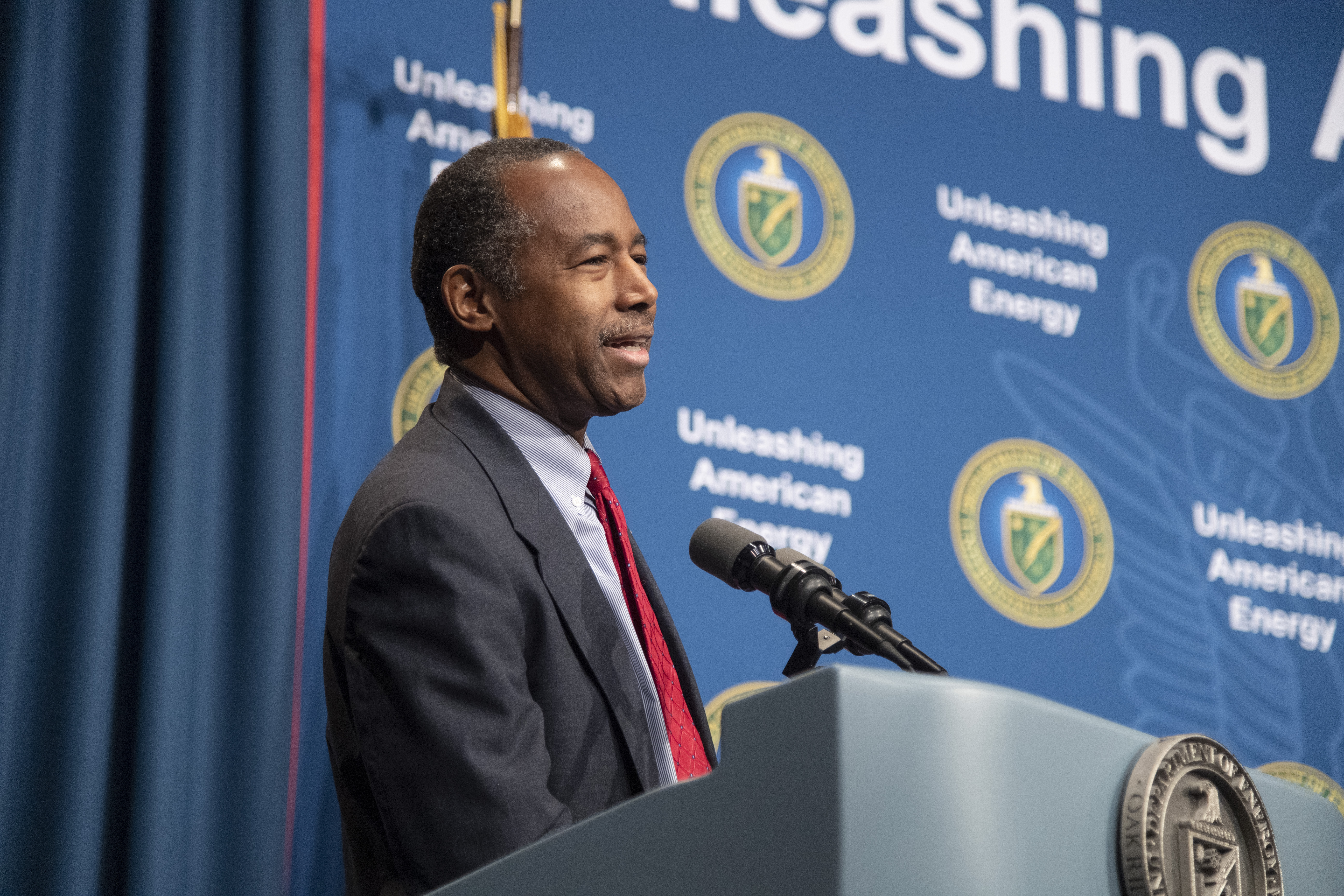 Secretary R. Perry host the Department of Energy Black History Month program with special guest Ben Carson on February 27, 2019 For more information or additional images, please contact 202-586-5251. PHOTO CREDIT: DOE PHOTOGRAPHER, DONICA PAYNE)